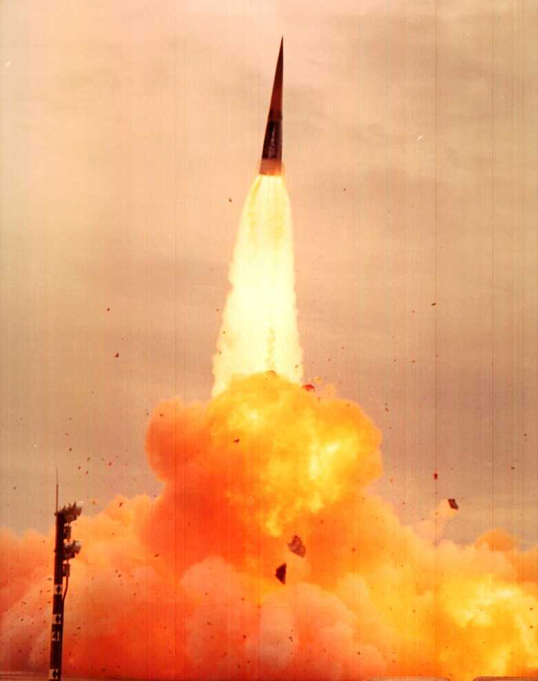 A Sprint missile ignites its booster shortly after being "popped" from its underground silo on Meck Island in the Kwajalein Atoll. The debris in the air is the remains of its silo cover, which is explosively detonated as the missile rises.